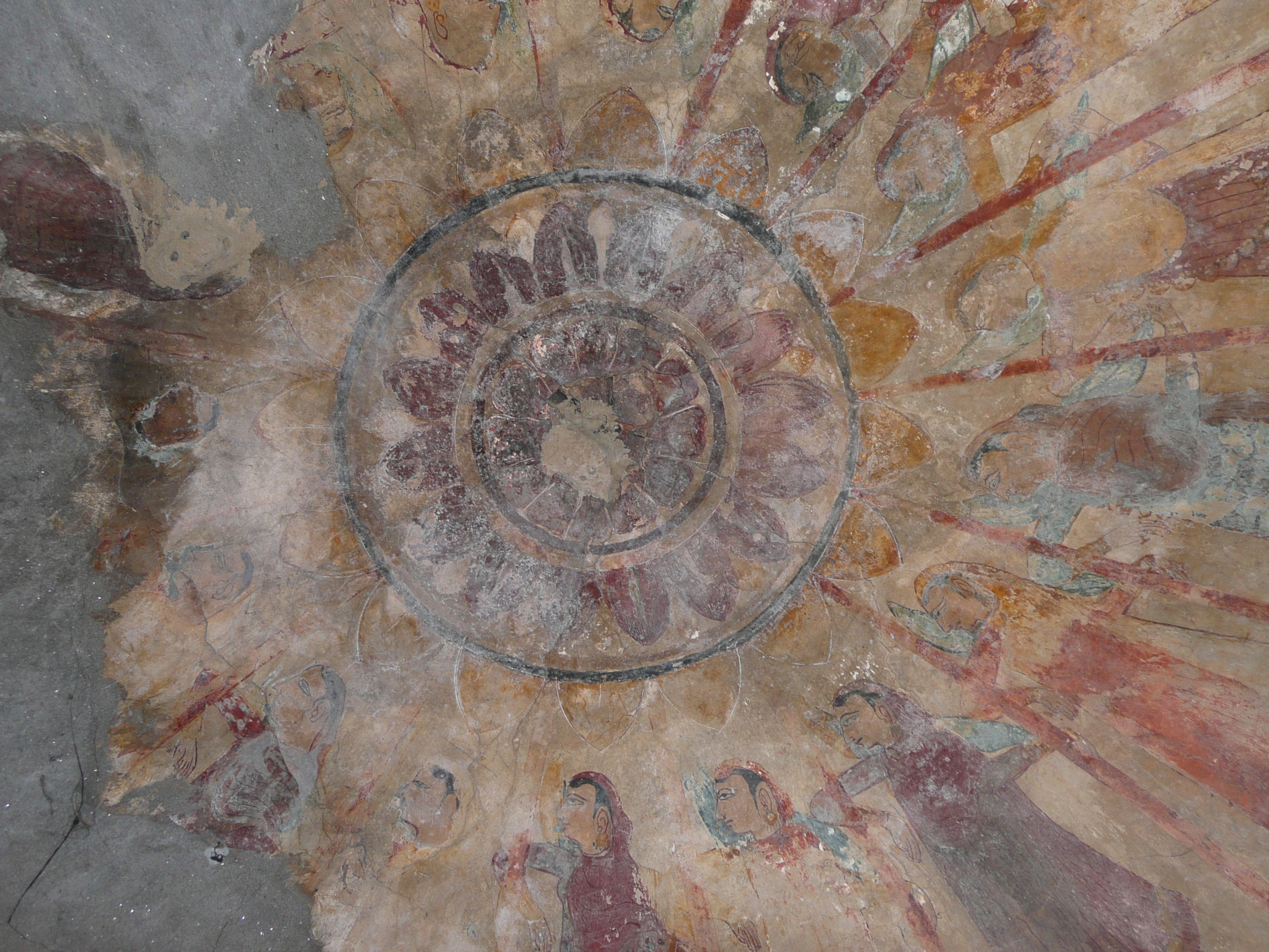 Outer roof paintings on Shiva Temple ( These are all Ancient Wall Pics as RAAS LEELA of Shri Krishna on Shiva Temple roofs and walls in Payal, Ludhiana, Punjab, India)